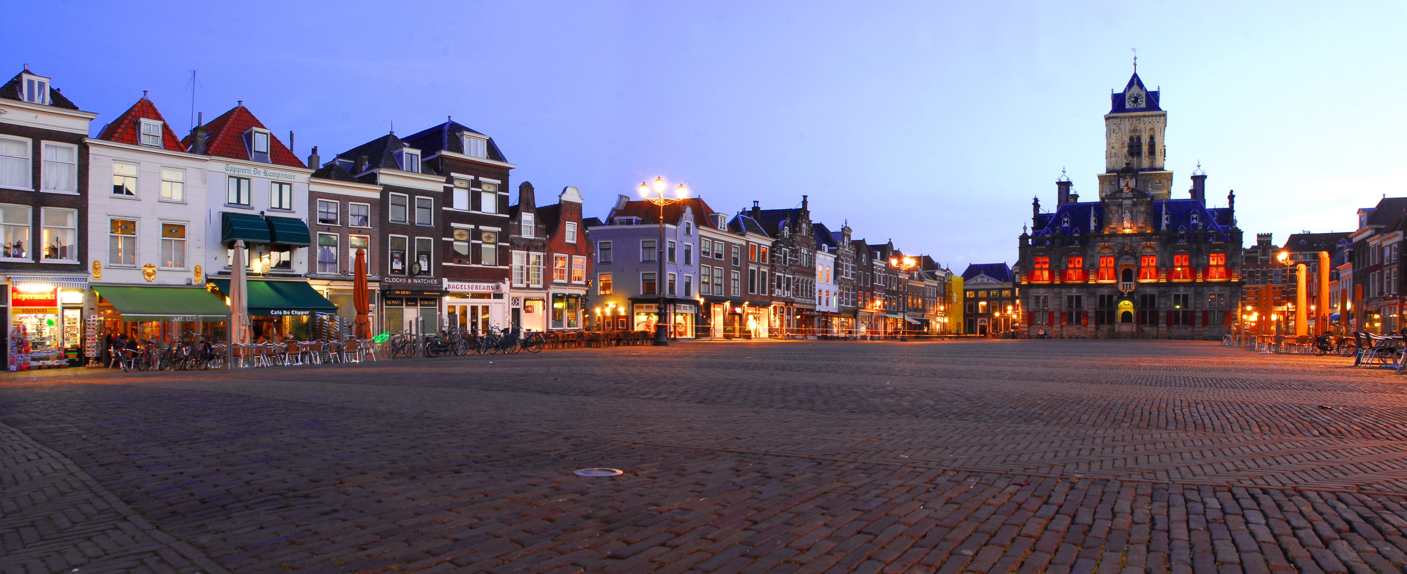 A view of Delft Central Market Square with the Town Hall